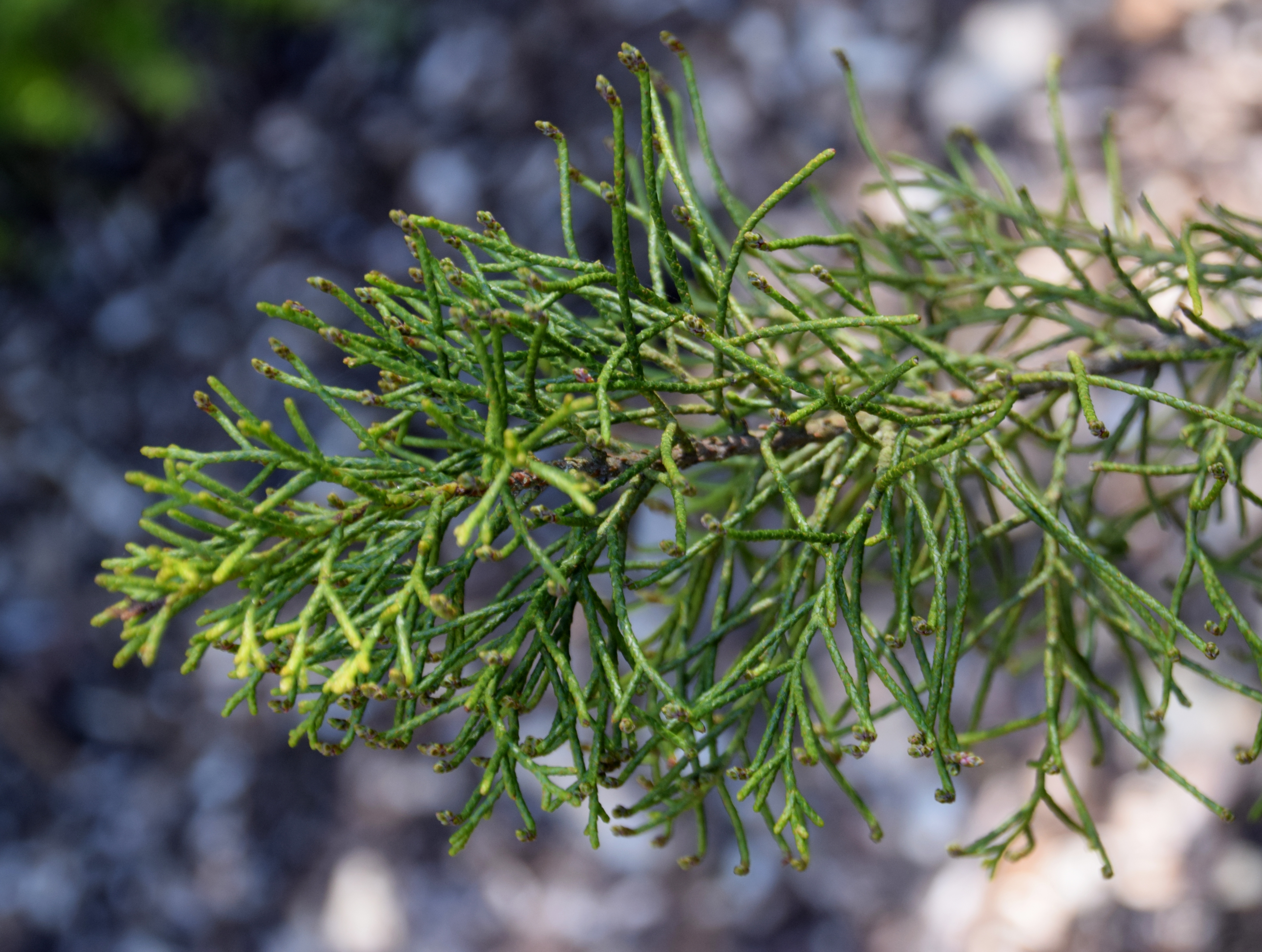 Halocarpus biformis in Dunedin Botanic Garden, Dunedin, New Zealand